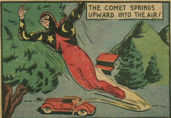 Panel from Pep Comics #6. Renewals in periodicals were checked for the years 1967 and 1968. There were no listings for Pep Comics; there's no evidence of current copyright.